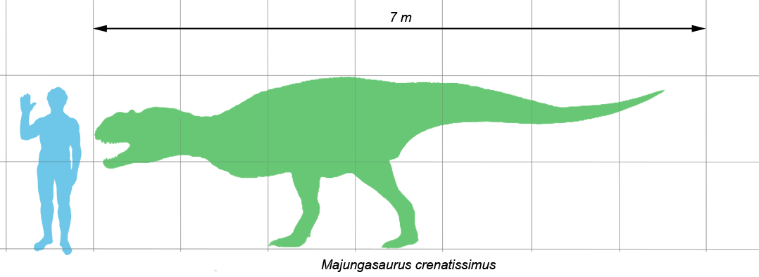 Size chart for Majungasaurus crenatissimus, based on an illustration by ArthurWeasley [1]